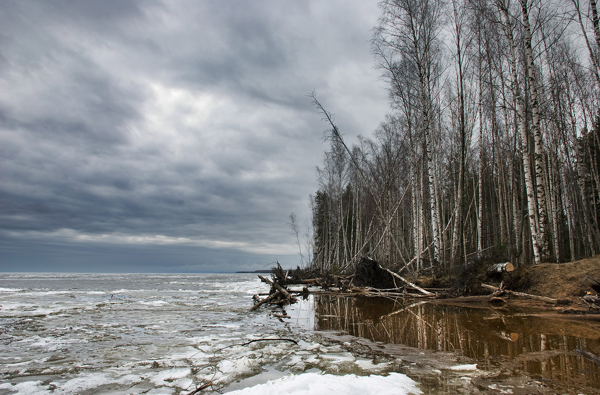 Rybinsk Reservoir in April